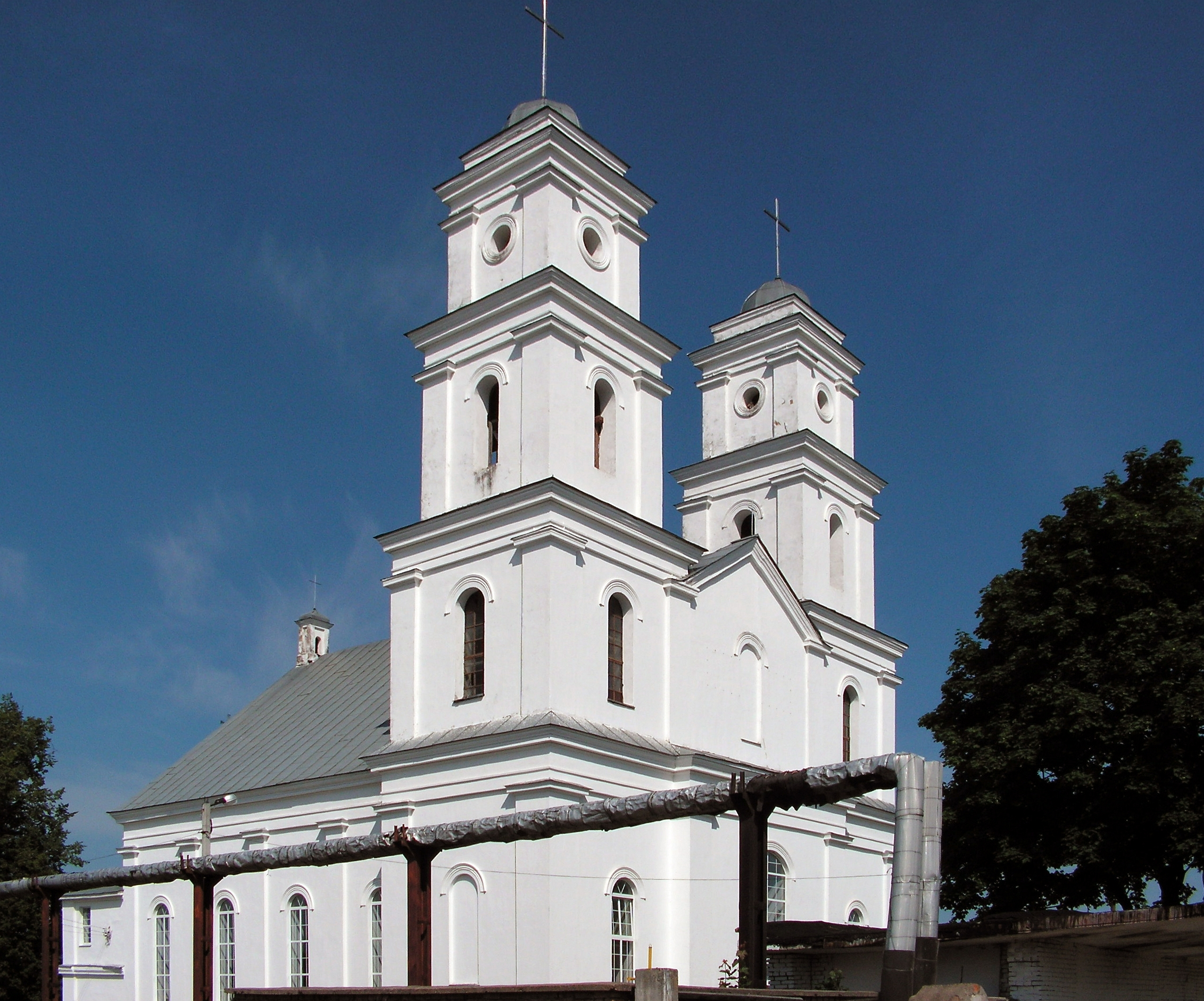 Church of Holy Trinity (Radashkovichy, Belarus)